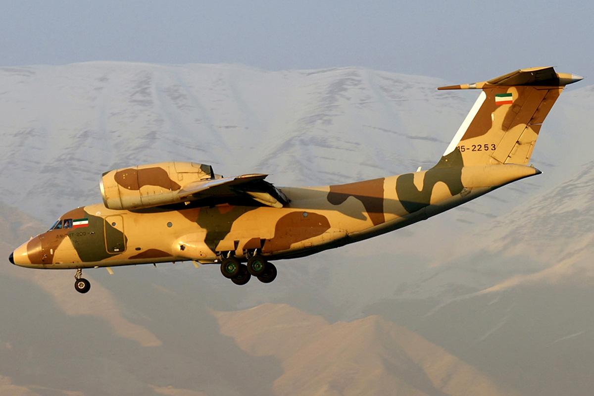 An An-74TK-200 of the Islamic Revolutionary Guard Corps Aerospace Force.